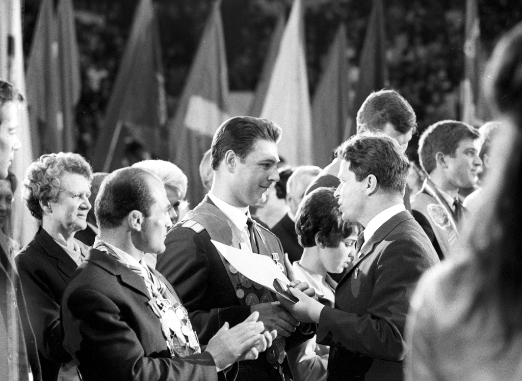 “Yevgeny Tyazhelnikov and hockey player Igor Romishevsky”. Yevgeny Tyazhelnikov, right, First Secretary of the Young Communist League, handing an honorary badge to hockey player Igor Romishevsky, a delegate to the 16th YCL Congress. Moscow.